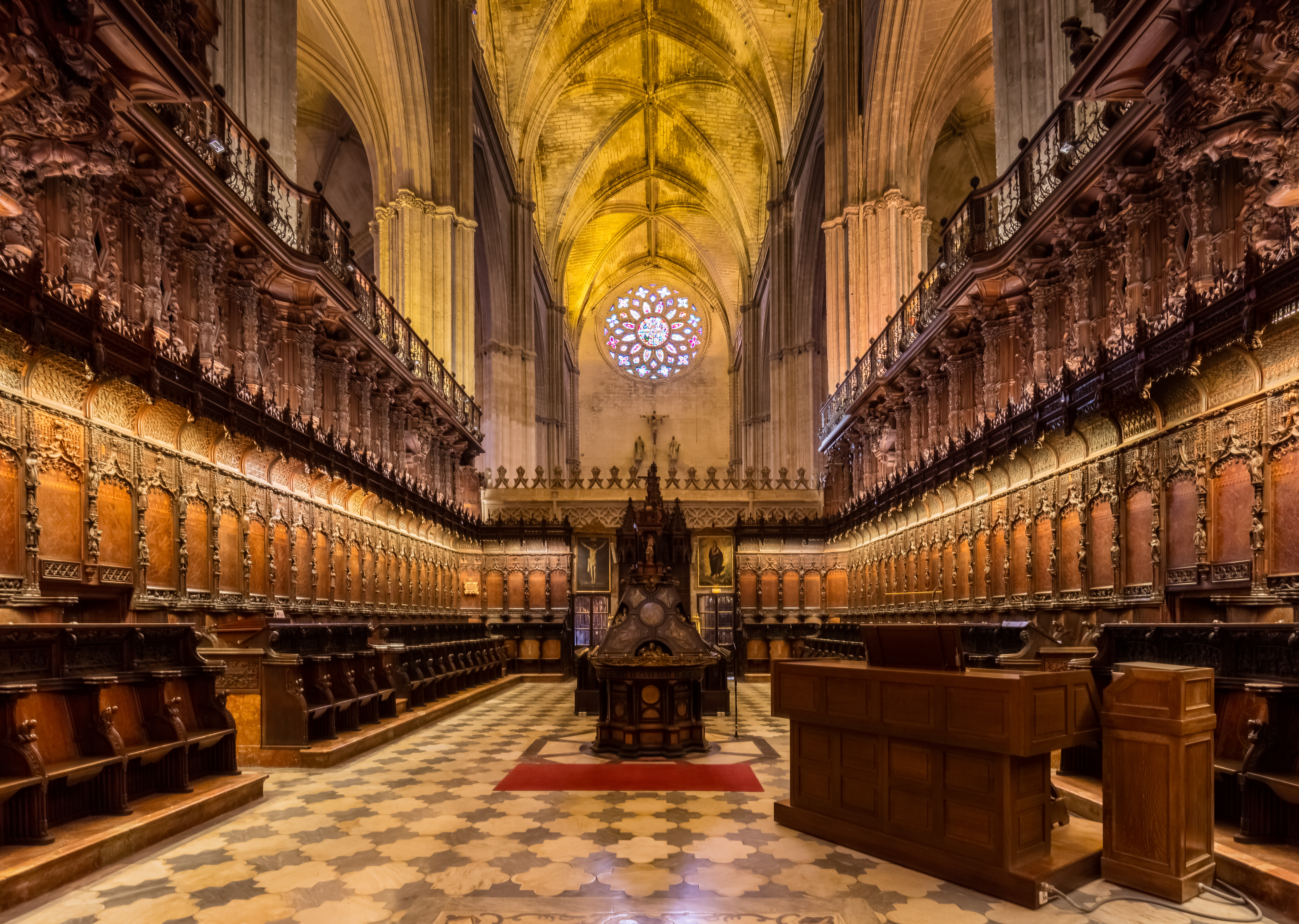 Choir, Cathedral of Seville, Seville, Spain